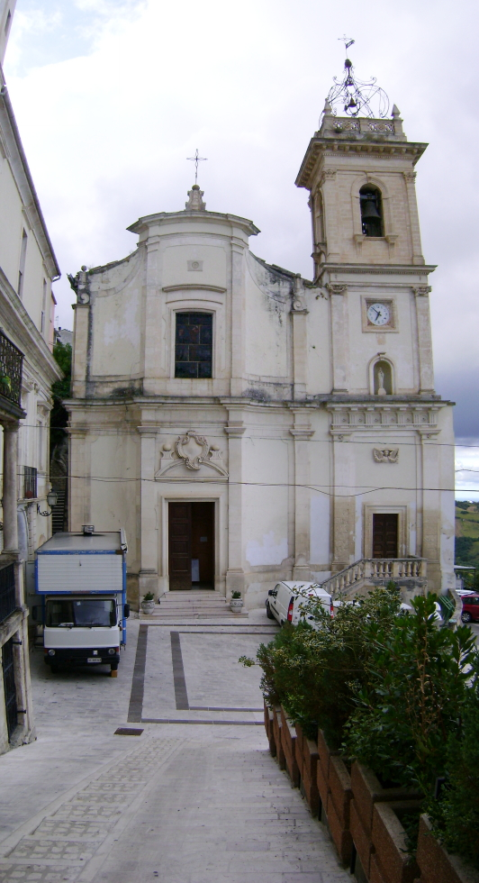 The church of St. Silvestro and Rocco in Pennapiedimonte, in the province of Chieti, Abruzzo